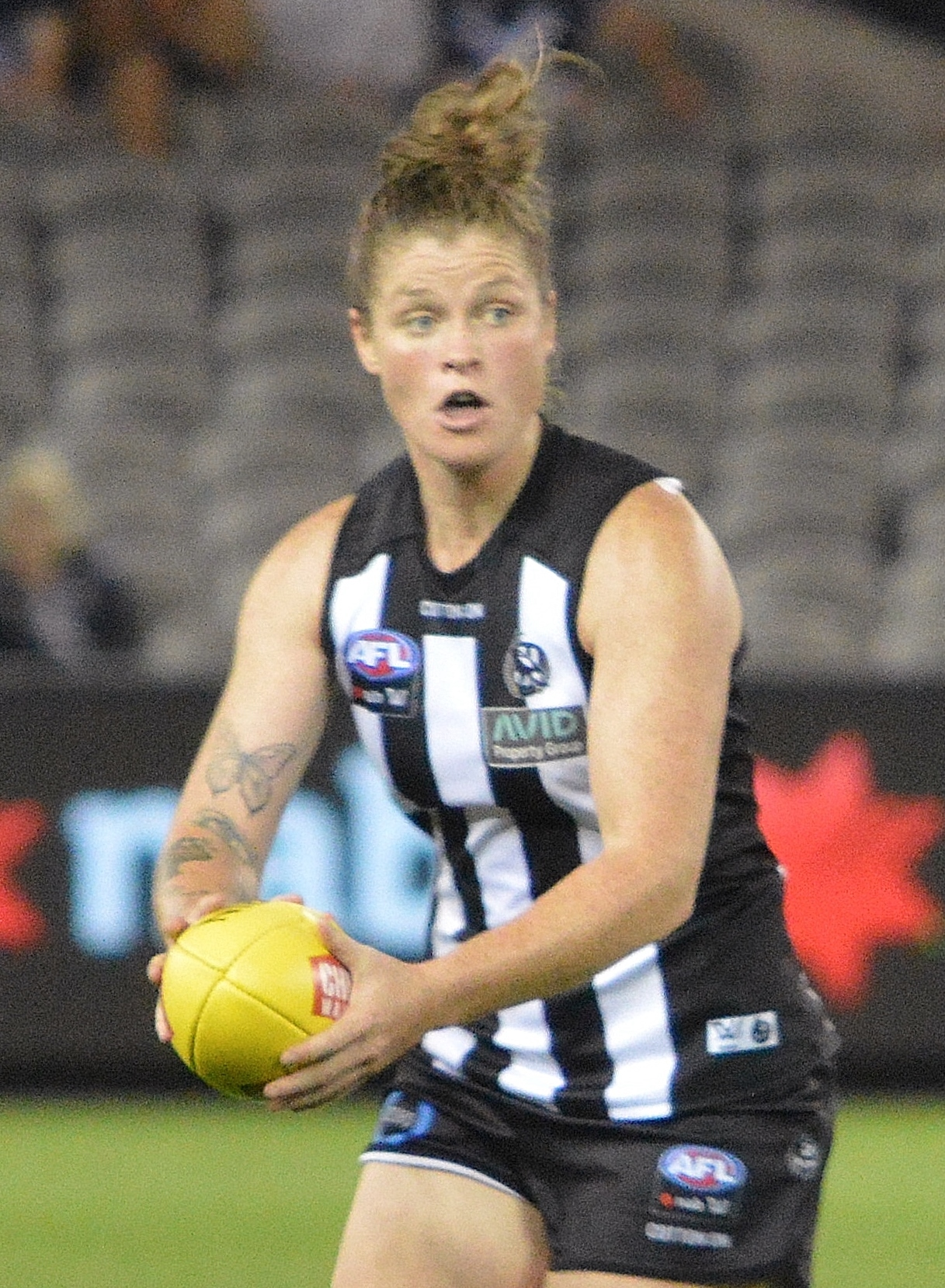 Brianna Davey with Collingwood during the round 4 2020 AFLW match against Melbourne at Marvel Stadium.